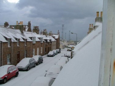 Looking South towards the Harbour in Peterhead from Merchant Street in winter. Photographed by Steve Plows ( (©deadloud 2005))